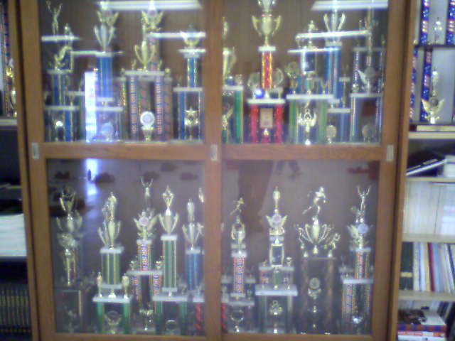 Port Charlotte High School NJROTC trophies: This is just a small portion of the awards earned by the Port Charlotte High School NJROTC unit.